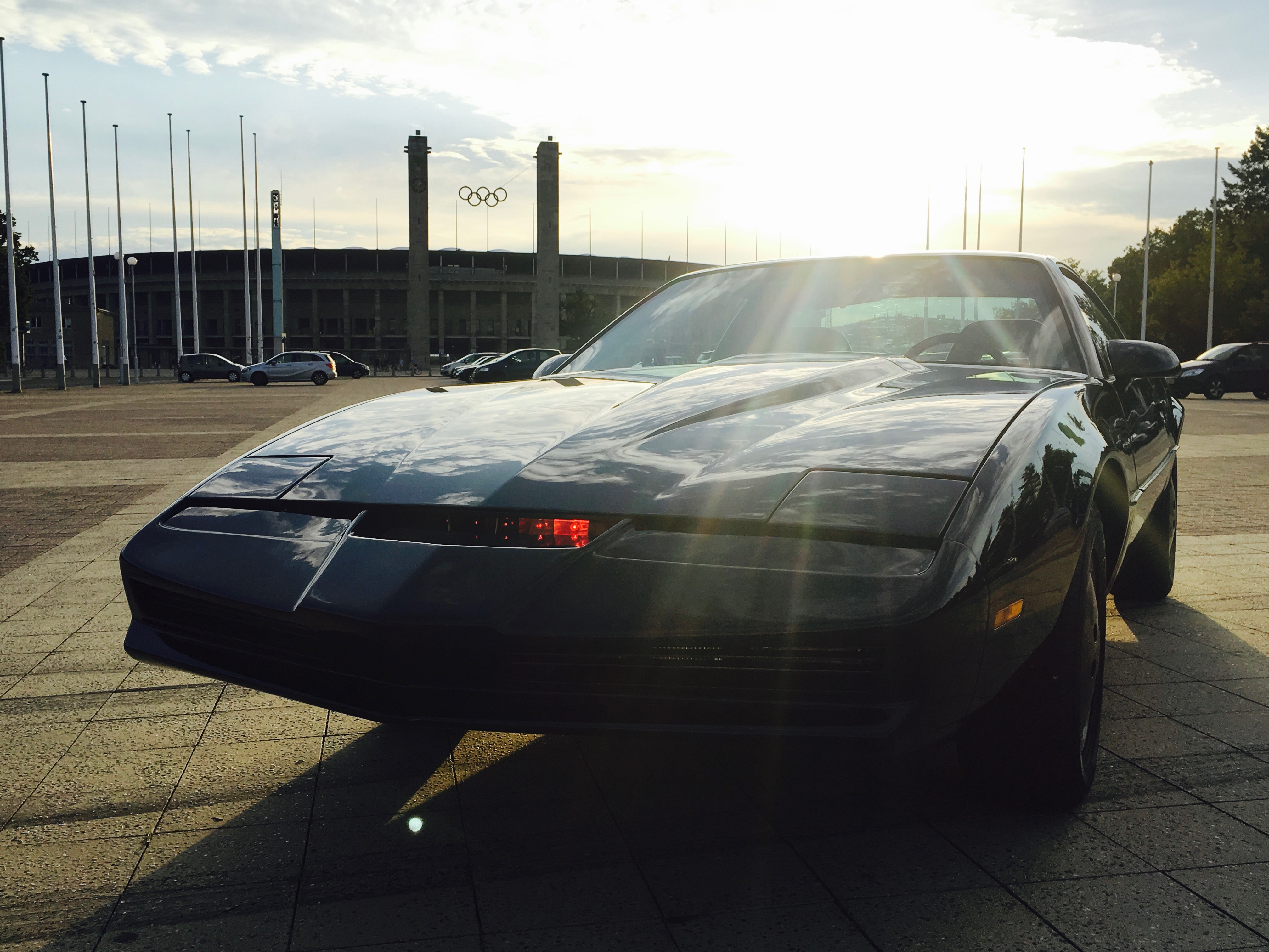 KITT replica from the Berlin based project "The Knight Mission". It is the official tour car from Hasselhoffs stage tour across Germany and Austria.